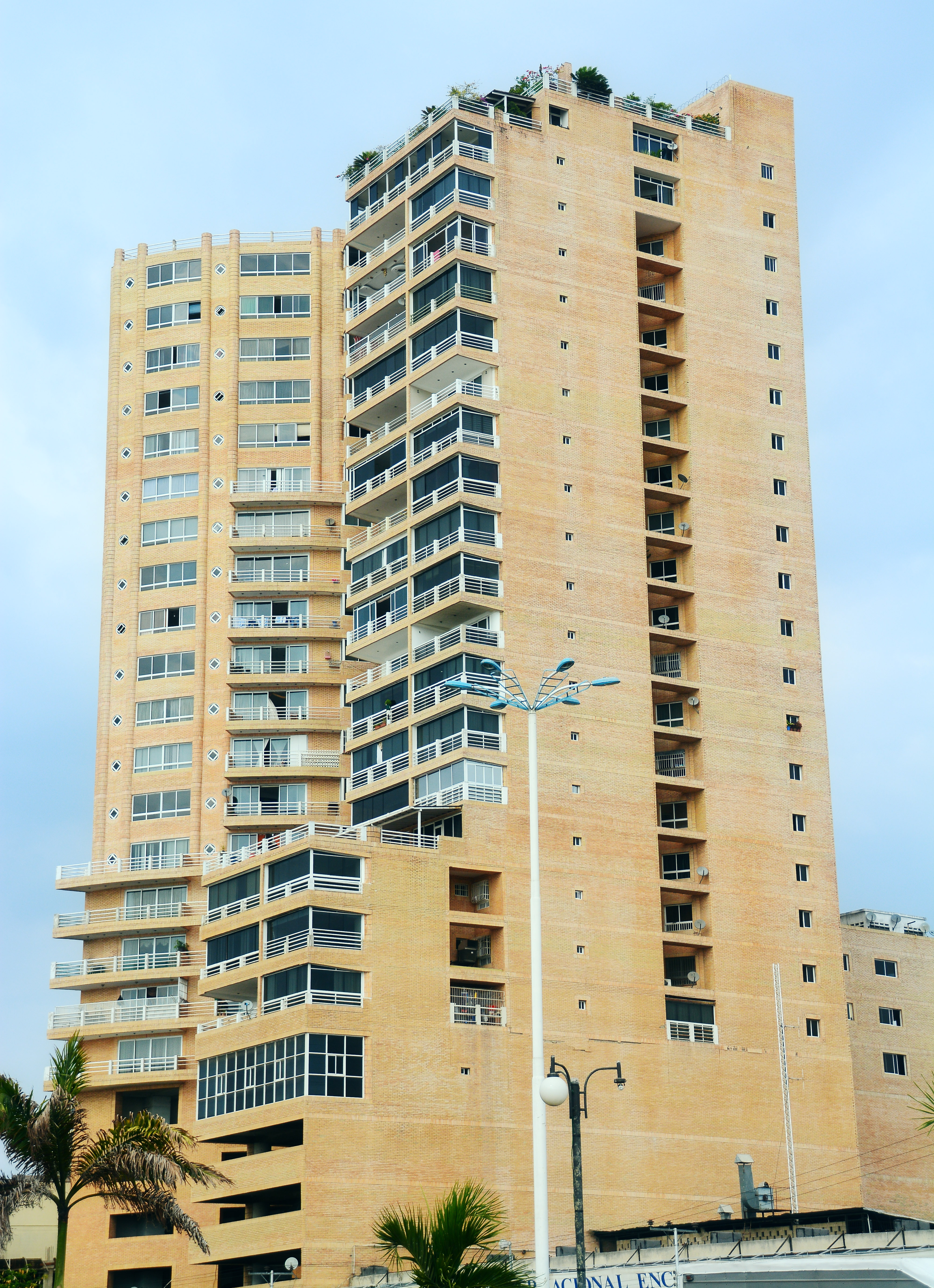 Paseo Colón Puerto la Cruz Venezuela.